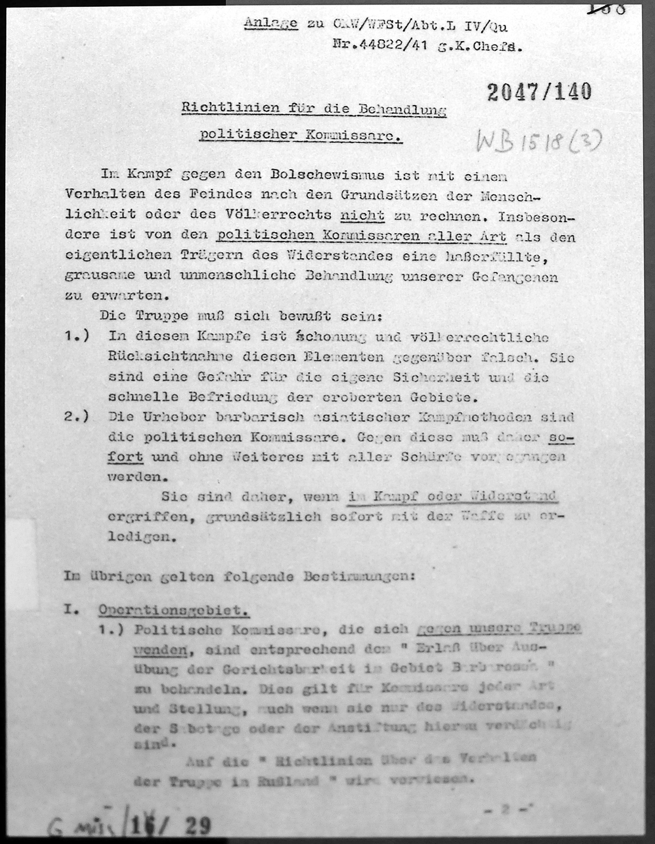 Kongreßhalle Nuremberg at the Reichsparteitagsgelände; Documents The making of this work was supported by Wikimedia Austria. For other files made with the support of Wikimedia Austria, please see the category Supported by Wikimedia Österreich. This file is ineligible for copyright and therefore in the public domain because it consists entirely of information that is common property and contains no original authorship.